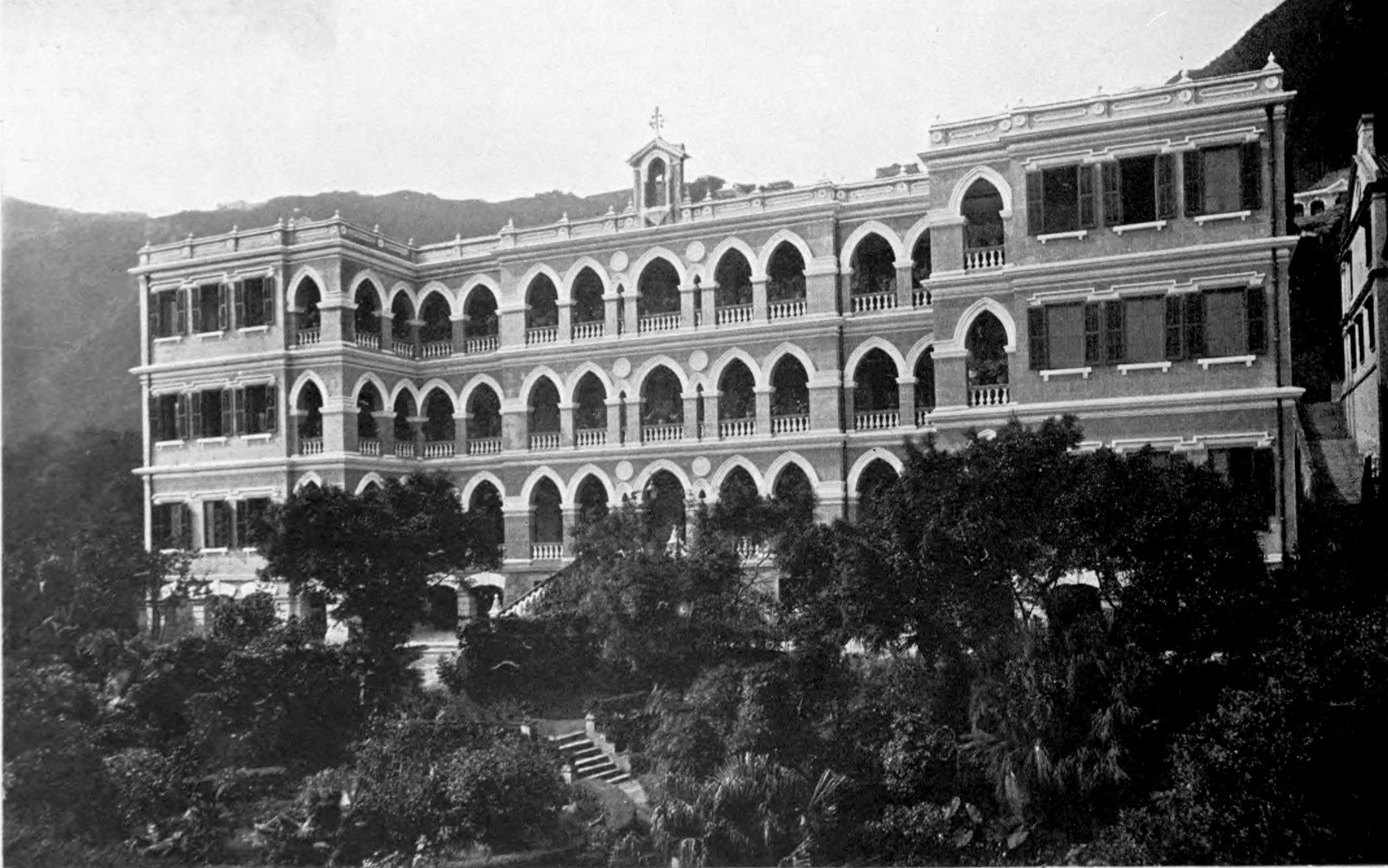 St Joseph's English college